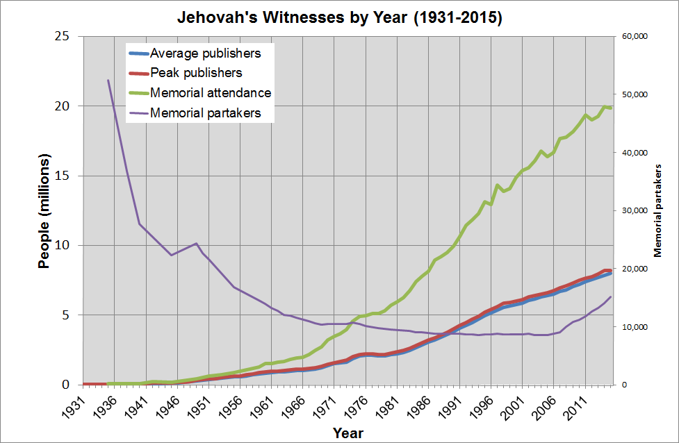 Chart of active Jehovah's Witnesses by year.